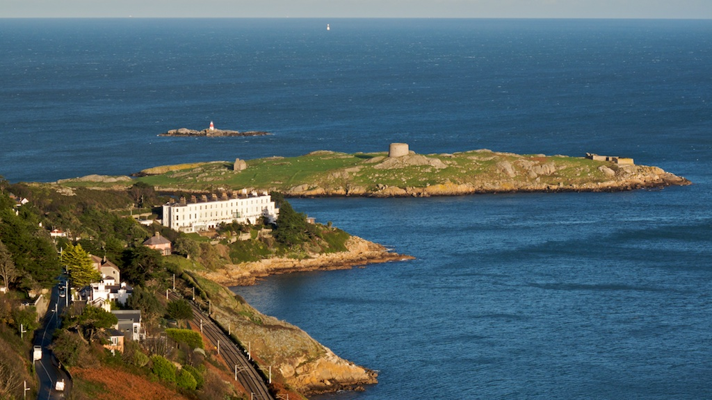 Dalkey Island and Sorrento Terrace viewed from Dalkey Hill